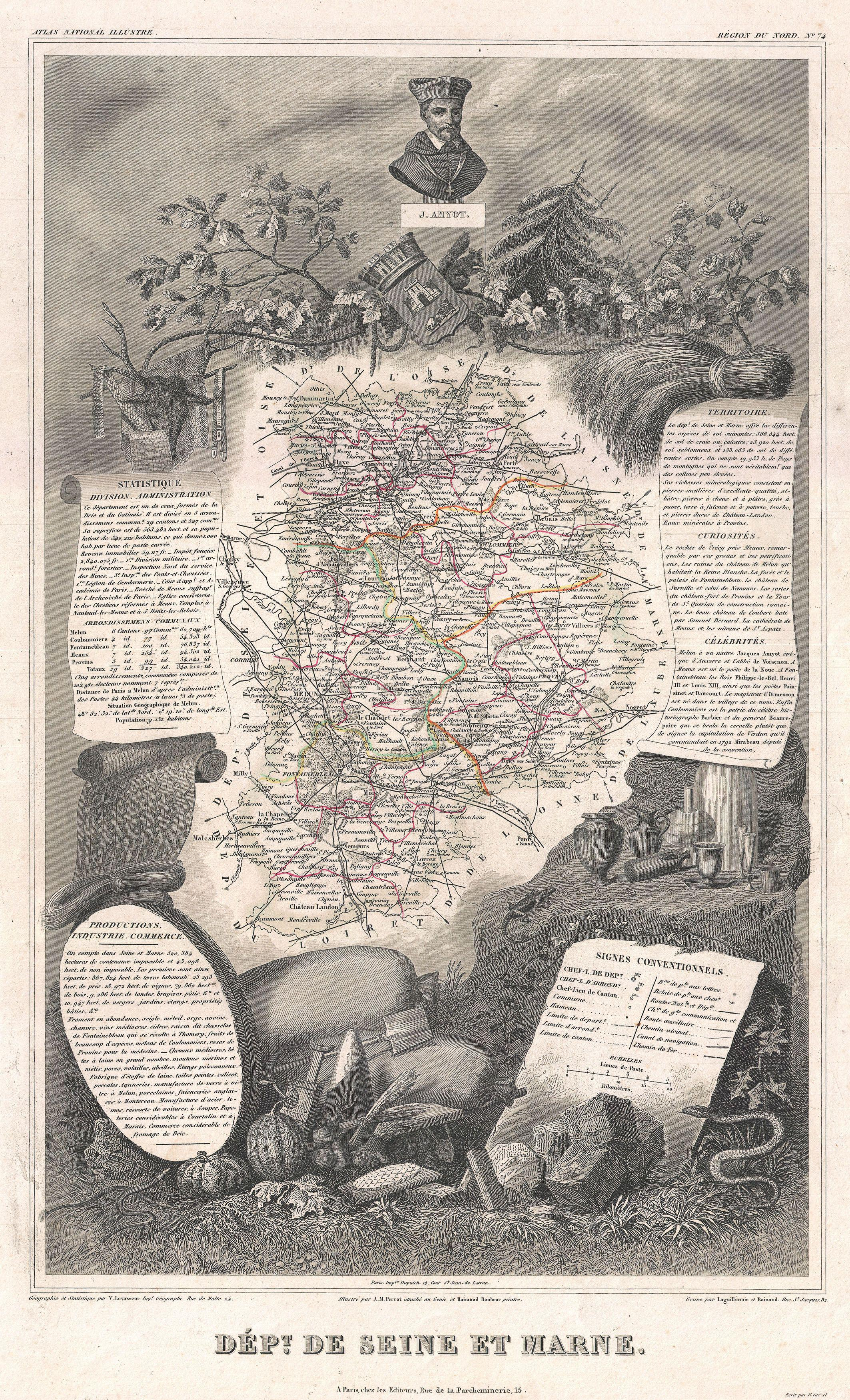 This is a fascinating 1852 map of the French department of Seine Et Marne, France. This region produces a wide variety of wines and hosts an annual wine and cheese fair. This area is known for its production of a brie-style cheese called “Fromage de Meaux.” Over 25 liters of milk are used produce just one wheel of this raw-milk cheese. When ripe, its rind breaks at the slightest touch, allowing the beautiful, hay-colored, almost liquid paste to ooze out. The map proper is surrounded by elaborate decorative engravings designed to illustrate both the natural beauty and trade richness of the land. There is a short textual history of the regions depicted on both the left and right sides of the map. Published by V. Levasseur in the 1852 edition of his Atlas National de la France Illustree.